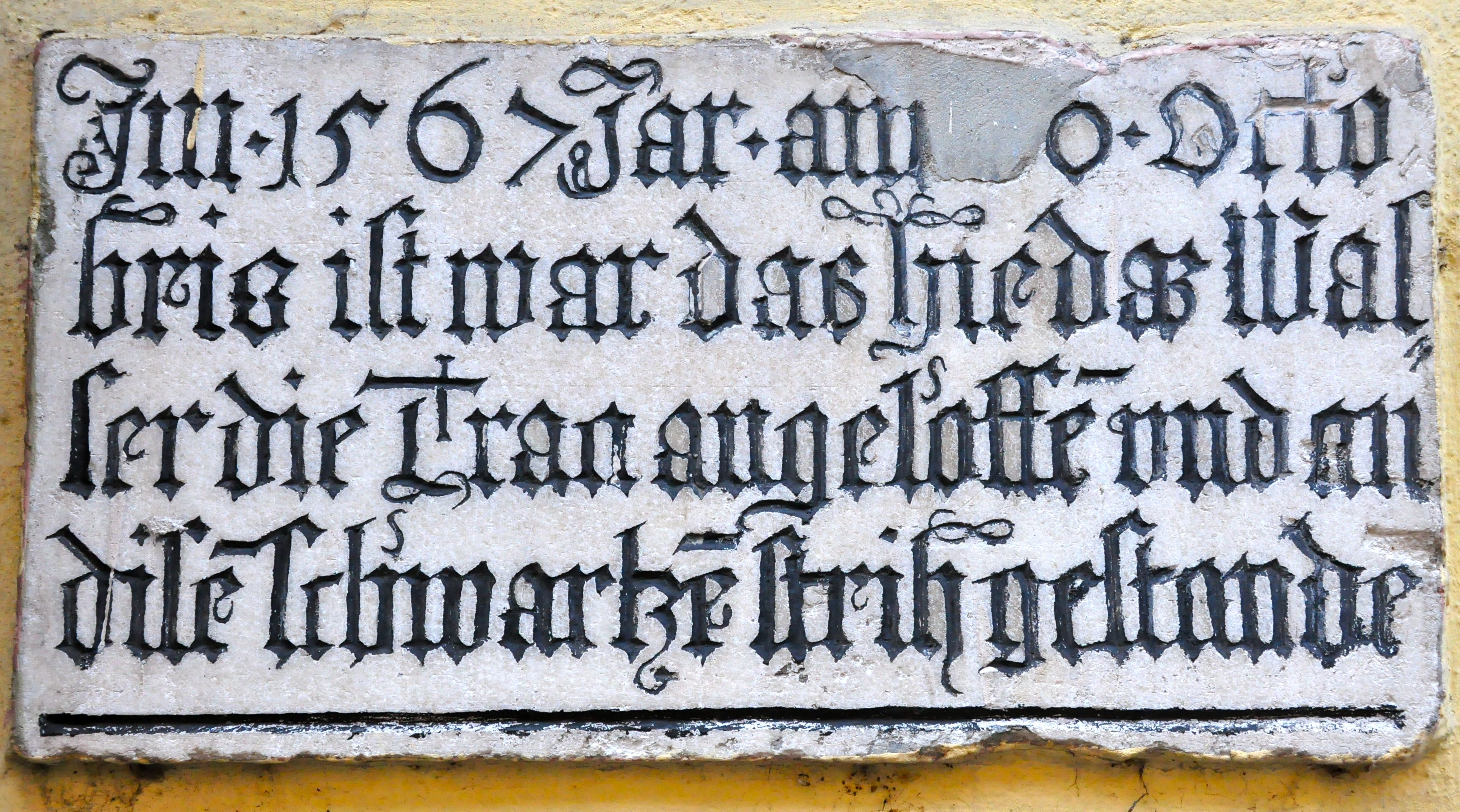 Flood memorial on the Lederergasse #12 in the city of Villach, Carinthia, Austria, EU